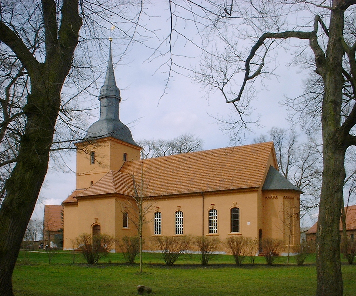 Church in Nauen-Ribbeck in Brandenburg, Germany